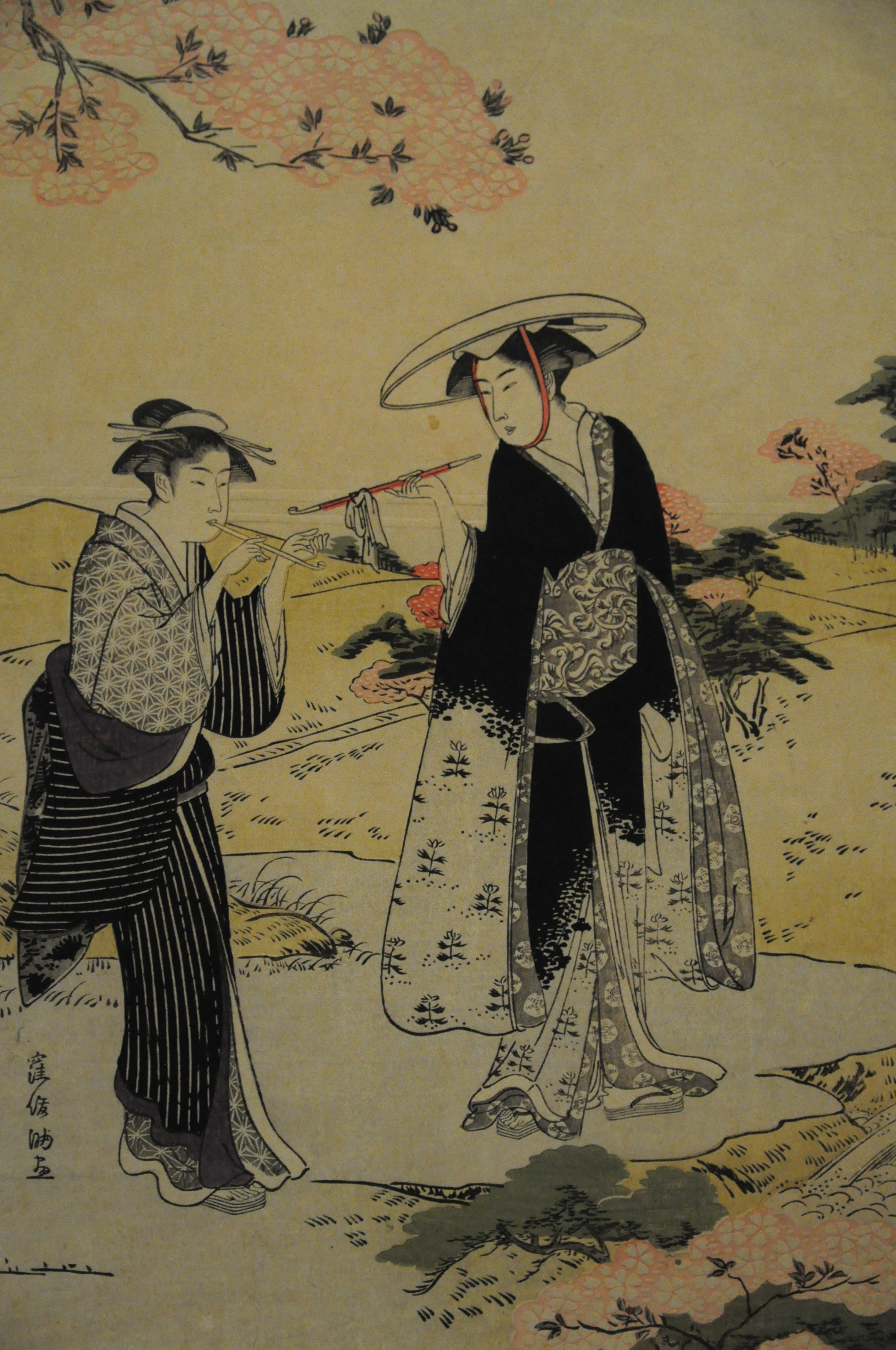 Ukiyo-e print : Women smoking under cherry blossoms, by Kubo Shunman (1757-1820)